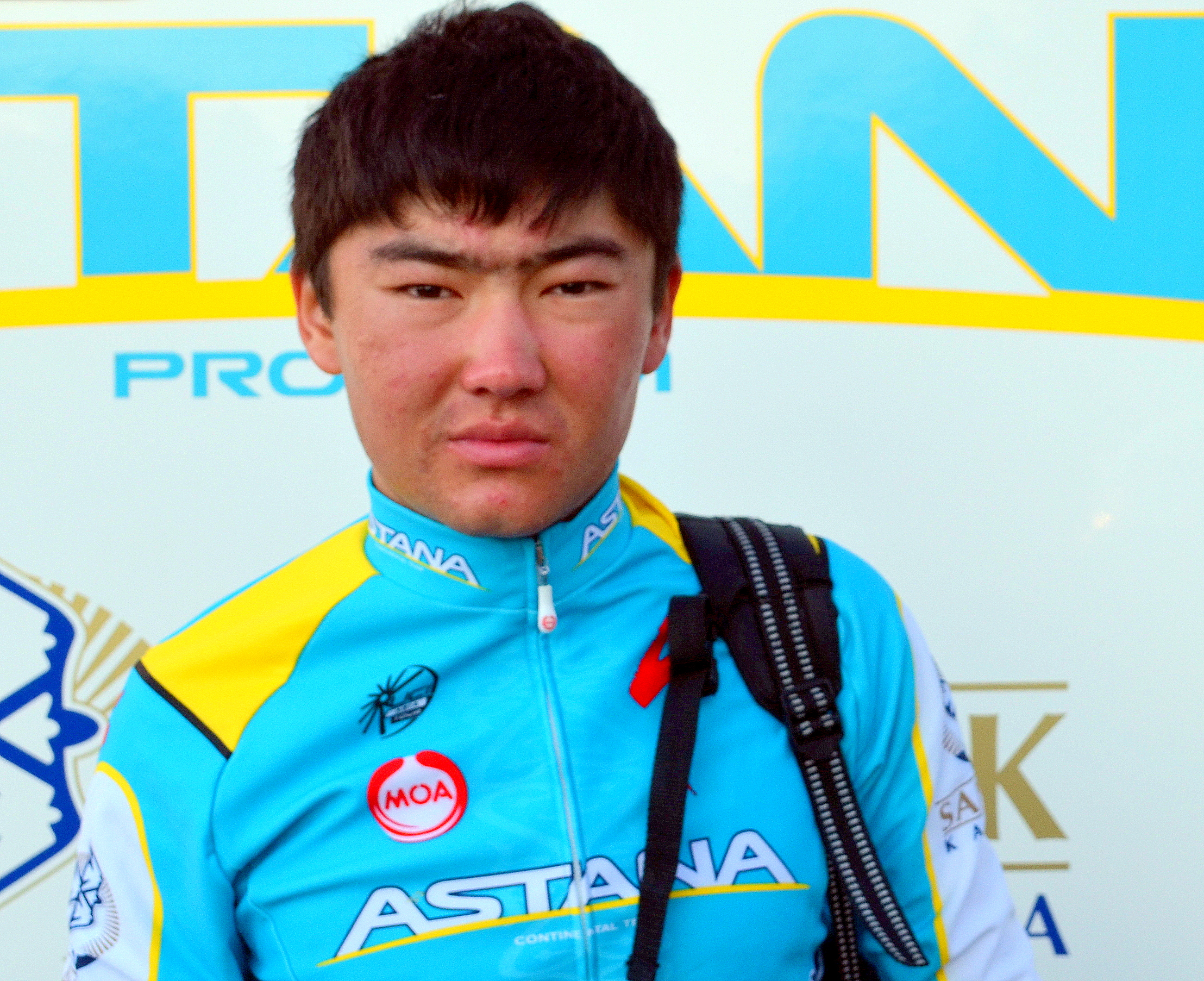 Tour de l'Ain 2014 - Stage 3: hotel after stage. Object location45° 49′ 10.89″ N, 4° 59′ 16.79″ E Personality rights warningAlthough this work is freely licensed or in the public domain, the person(s) shown may have rights that legally restrict certain re-uses unless those depicted consent to such uses. In these cases, a model release or other evidence of consent could protect you from infringement claims.